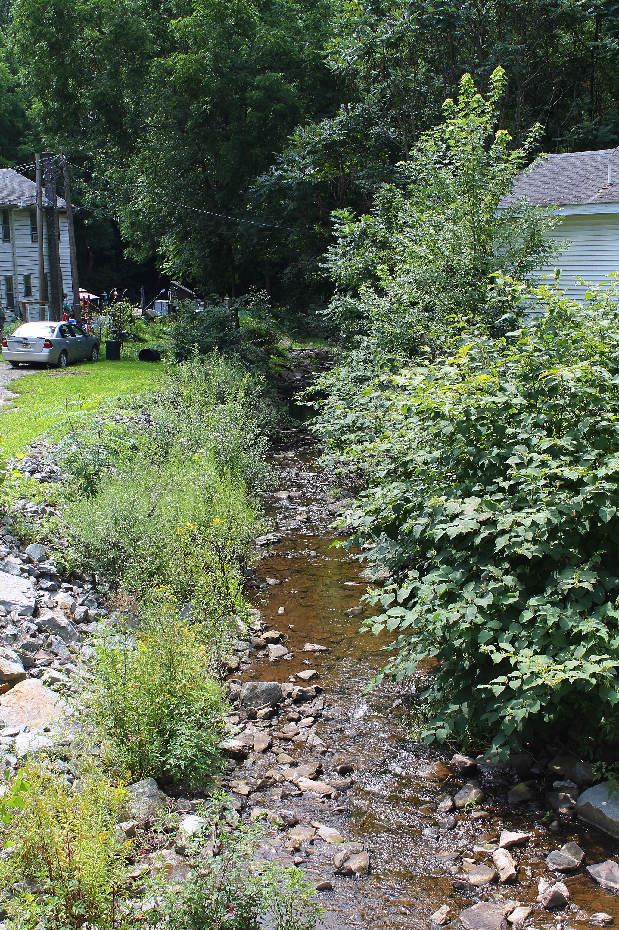 Mill Run, a tributary of the Susquehanna River in Wyoming County, Pennsylvania, looking downstream.